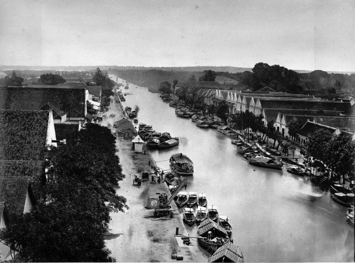 Activities alongthe wharf by Mas River, Surabaya